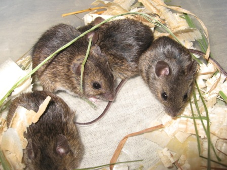 Apodemus uralensis (microps), caught in Mikulov (Czech Republic), 12 2009